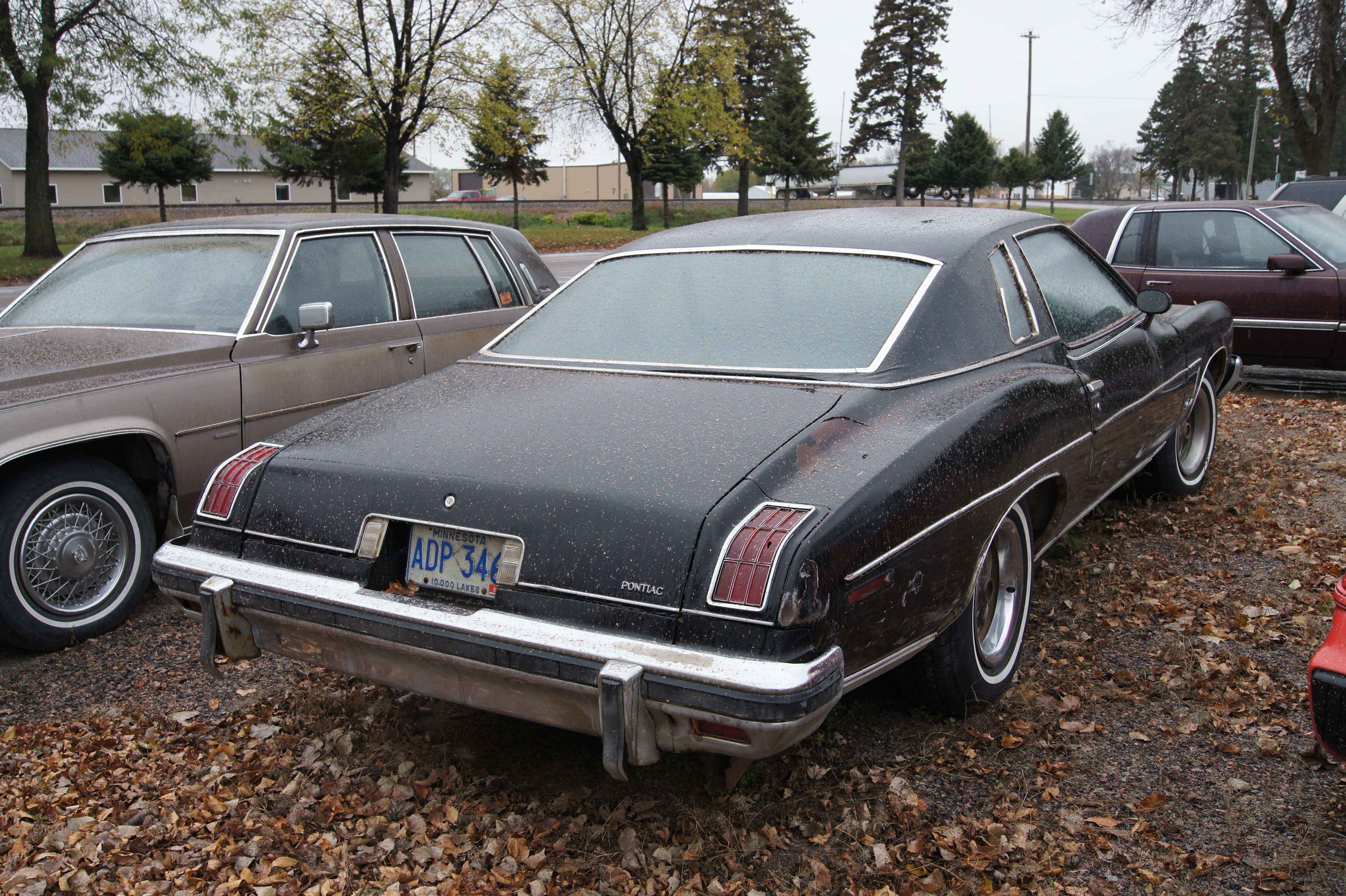 1975 Pontiac Grand LeMans